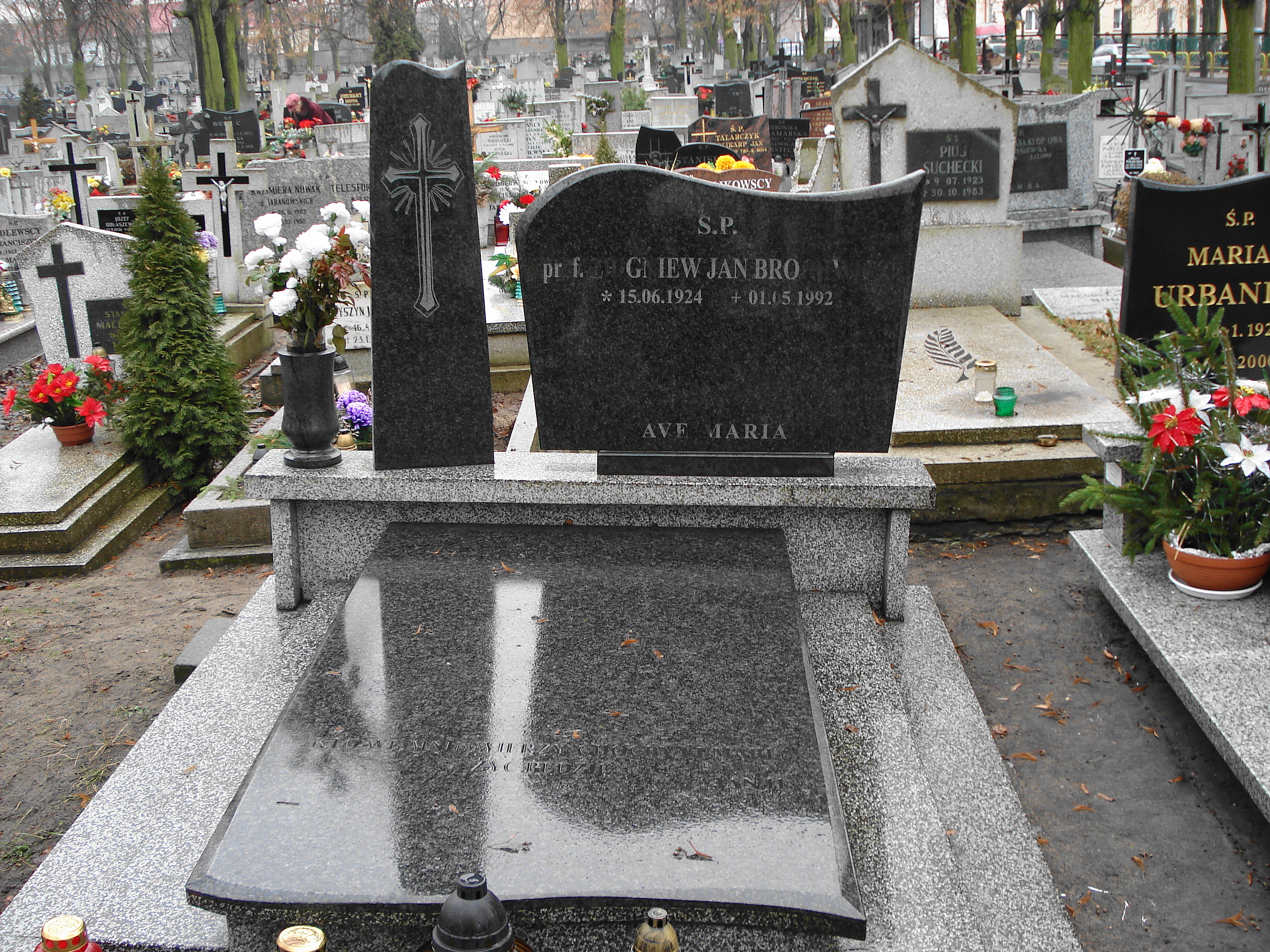 Wybickiego Street Cemetery in Toruń, gravestone Prof. Zbigniew Brochiwicz, ca. 1992